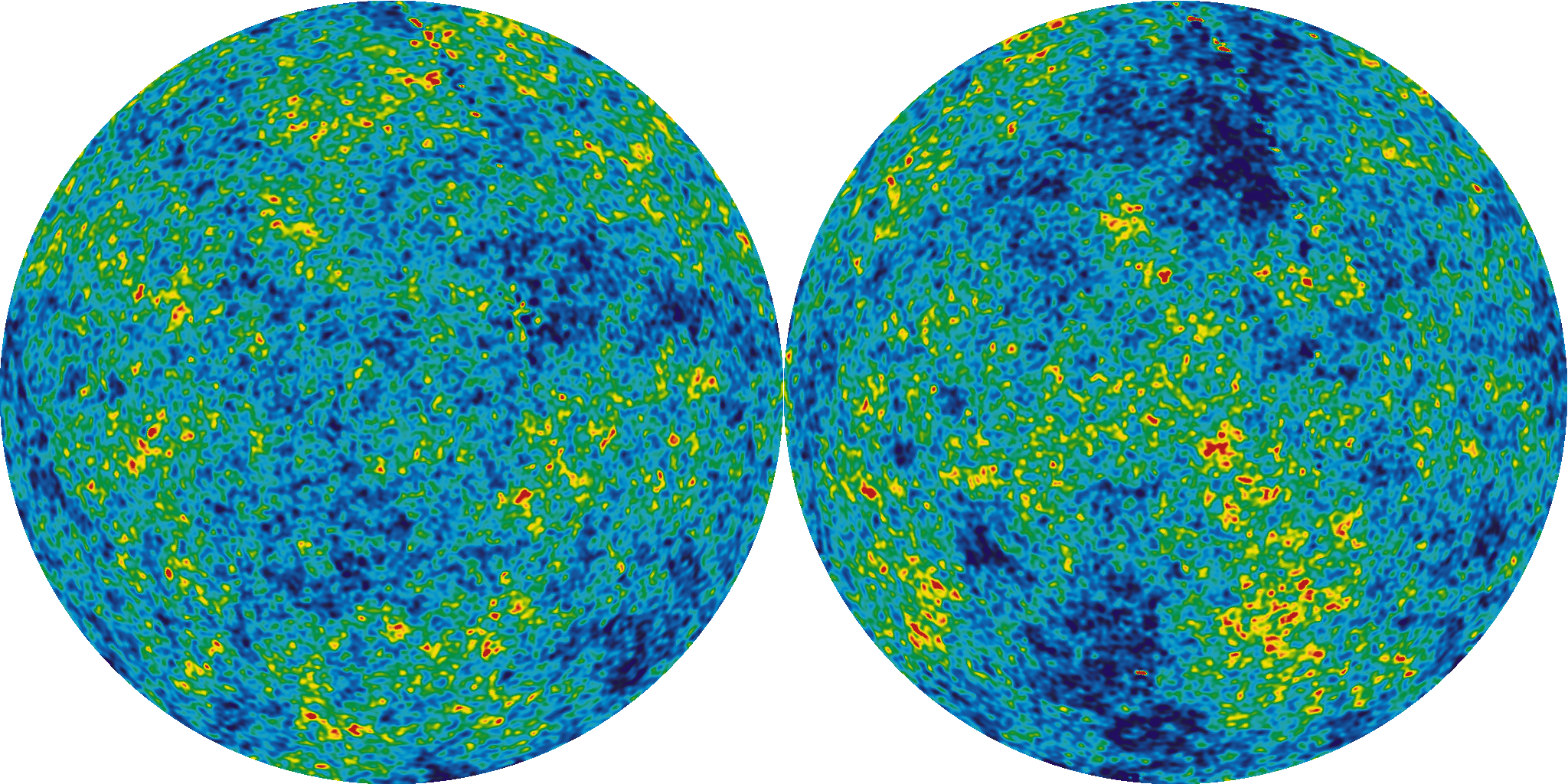 The cosmic microwave temperature fluctuations from the 5-year WMAP data seen over the full sky. From WMAP's ILC data reduction; ecliptic coordinates. The average temperature is 2.725 Kelvin. Red regions are warmer and blue regions are colder by 200 microkelvin; the colour scheme is linear.